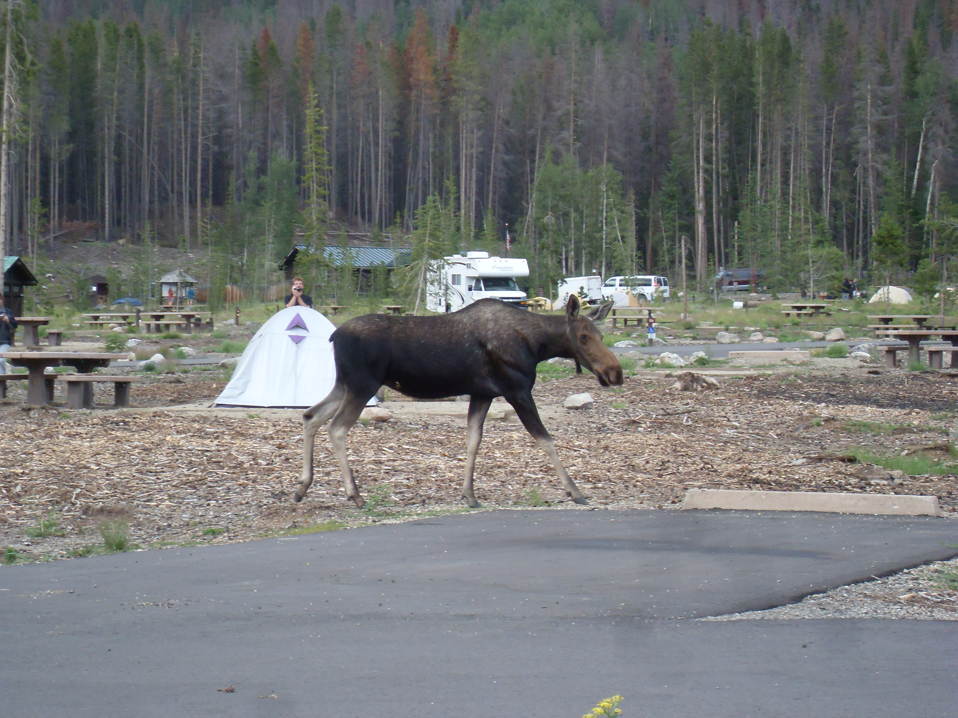 Moose on campground in the Rocky Mountain National Park